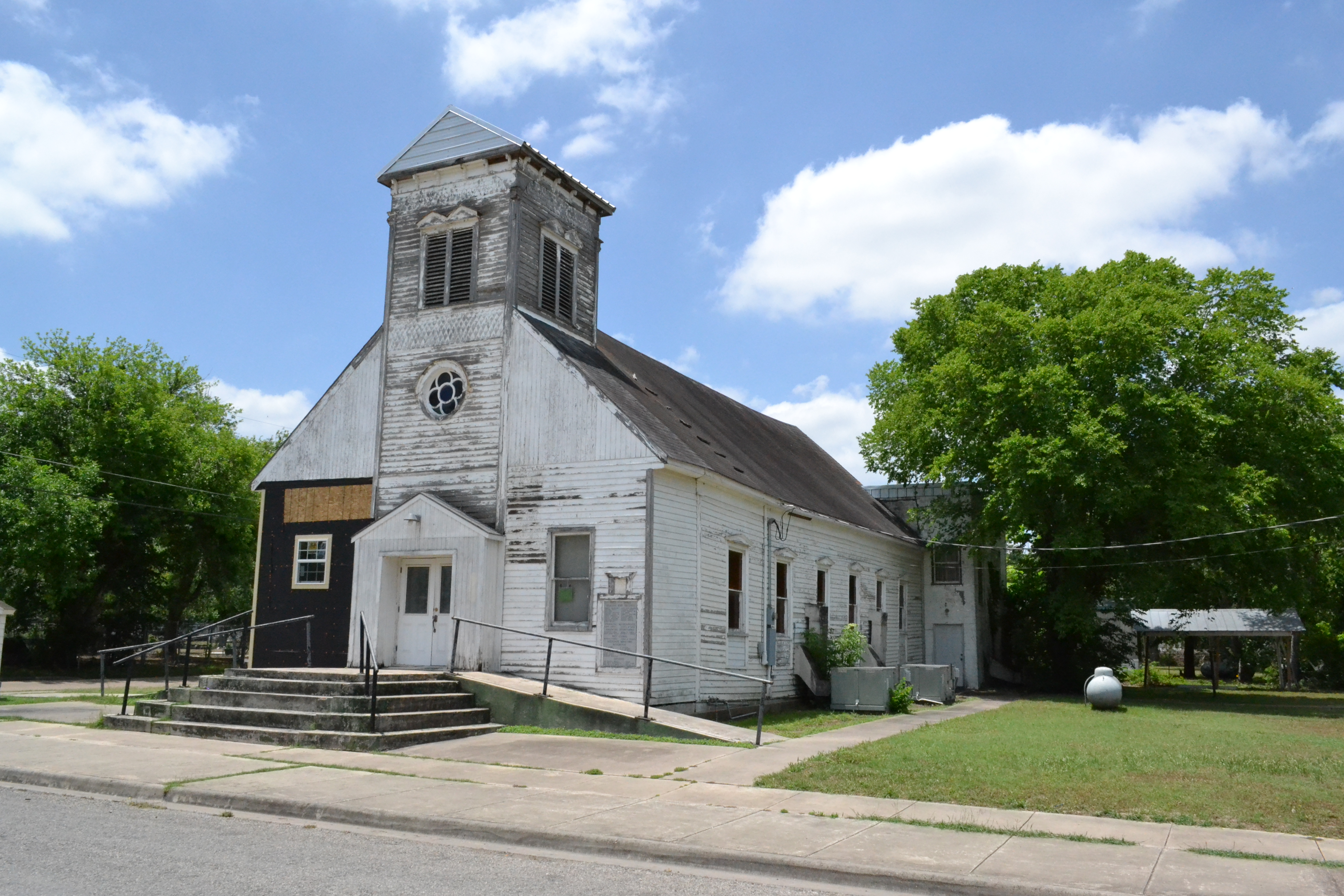 The Macedonia Baptist Church in Cuero, Texas. Listed on the National Register of Historic Places.